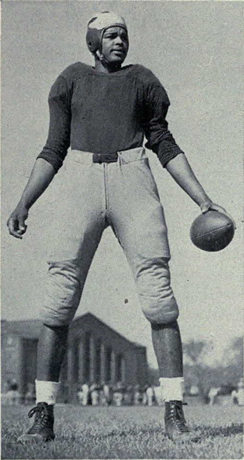 Photograph of Len Ford